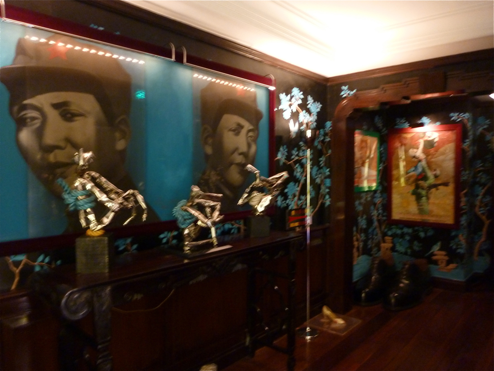 China Club - upstairs